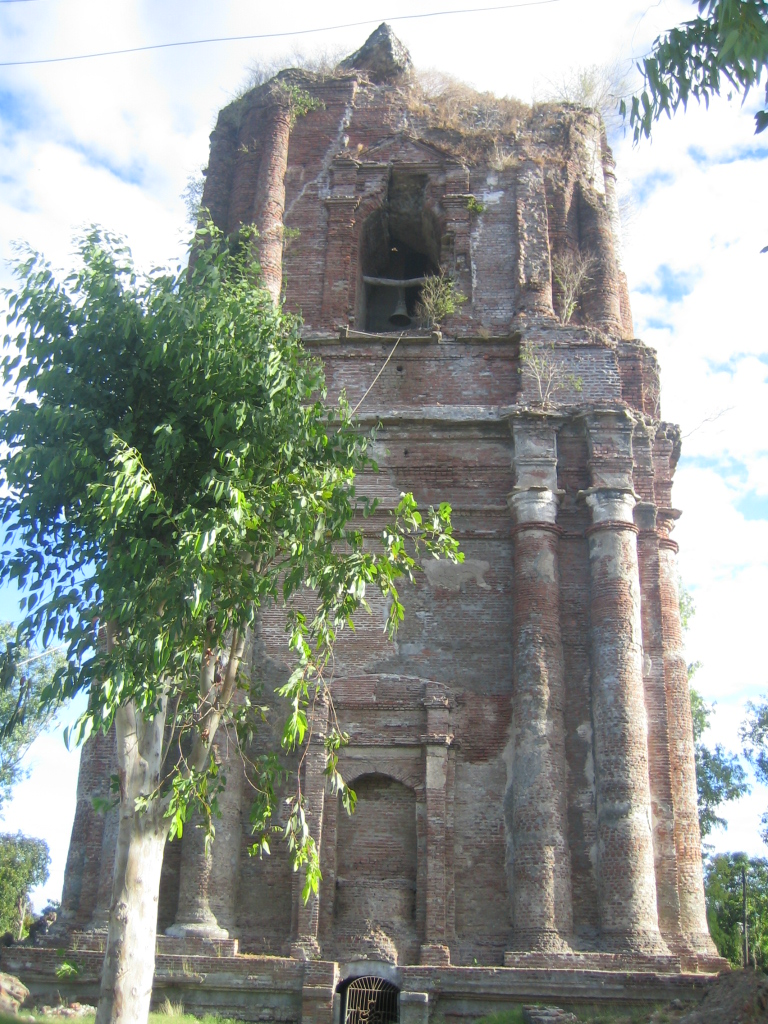 The Bacarra Belfry, which is leaning